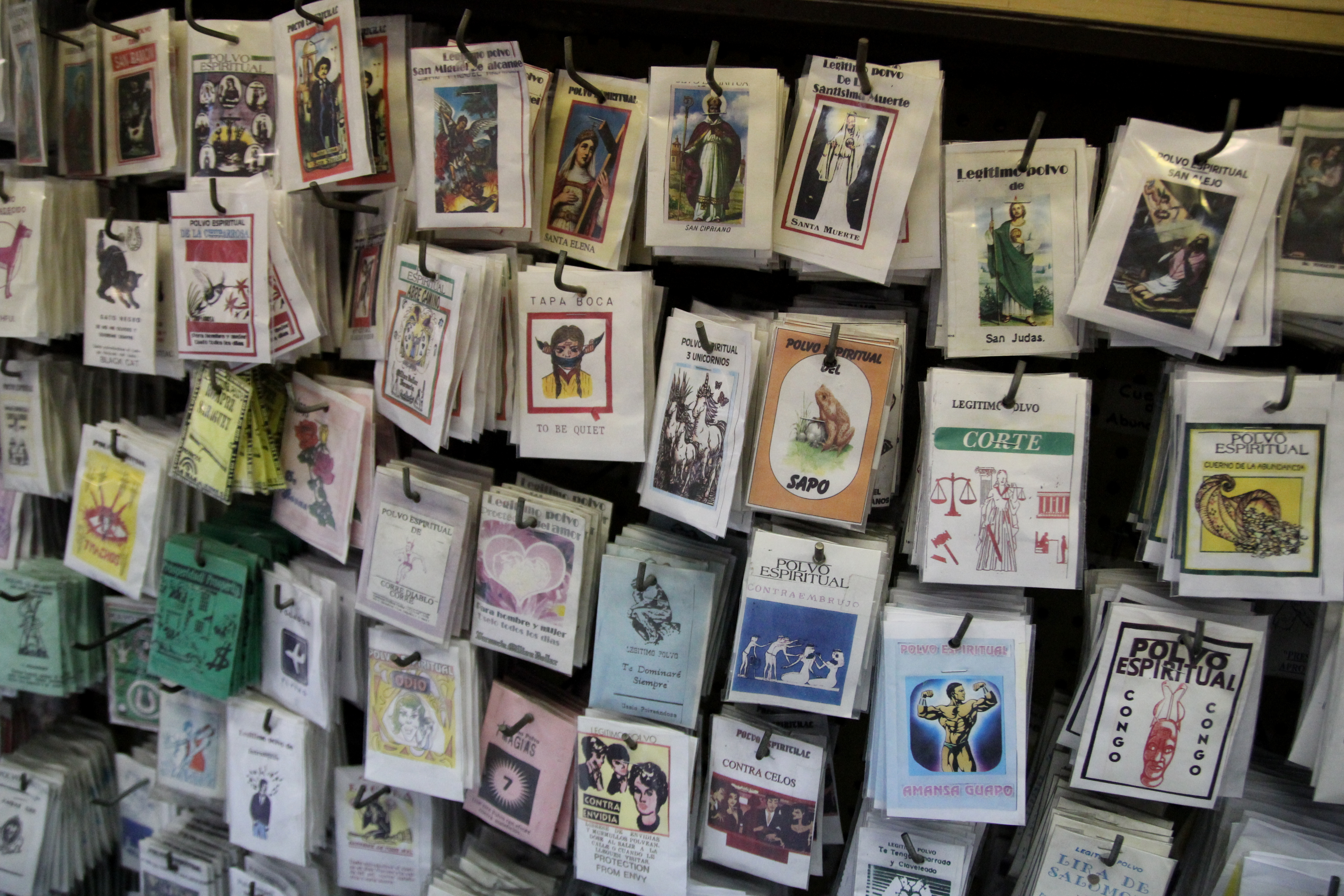 a shelf in a botánica shop. Los Angeles, CA